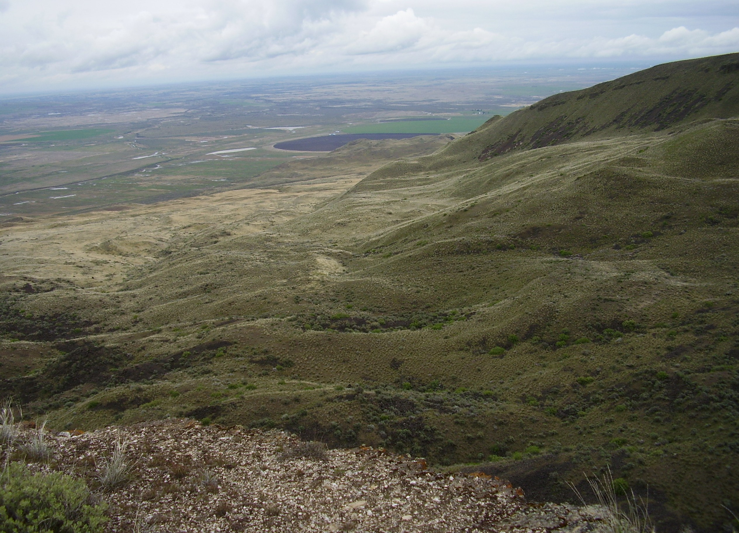 View from the top of the Corfu Slide in the Saddle Mountains located in central Washington state. Taken by uploader in April 2007. All rights relinquished. Williamborg 00:34, 15 April 2007 (UTC)